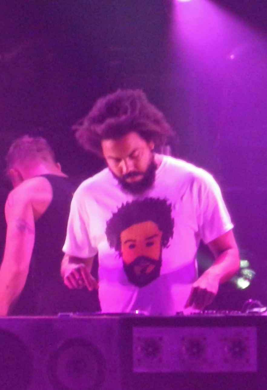 Major Lazer @ Congress Theatre, Chicago, 3/2/2013 - On flickr